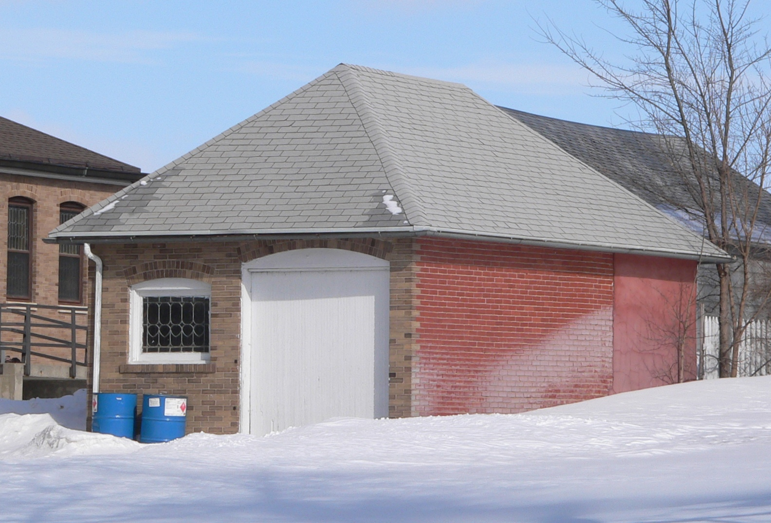 Garage behind rectory of St. Leonard's Catholic Church in Madison, Nebraska; seen from the southwest. The garage was built in 1912-13; the brown brick on the west side is the same that was used in the church and rectory, and the stained-glass window may have been part of the church that preceded the current one. The garage, together with the church and rectory, is listed in the National Register of Historic Places.